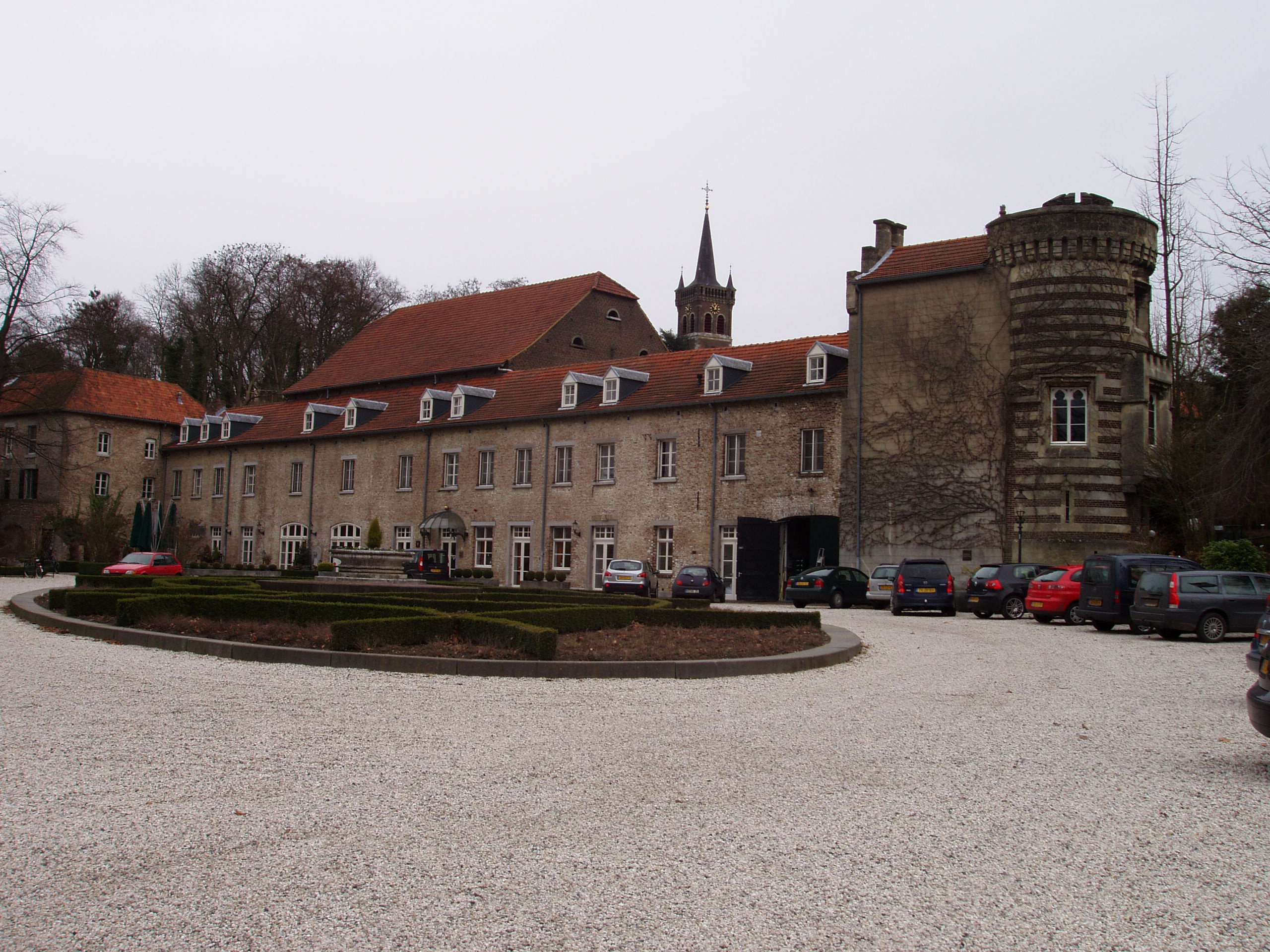 Castle Elsloo, Elsloo, Limburg, Netherlands